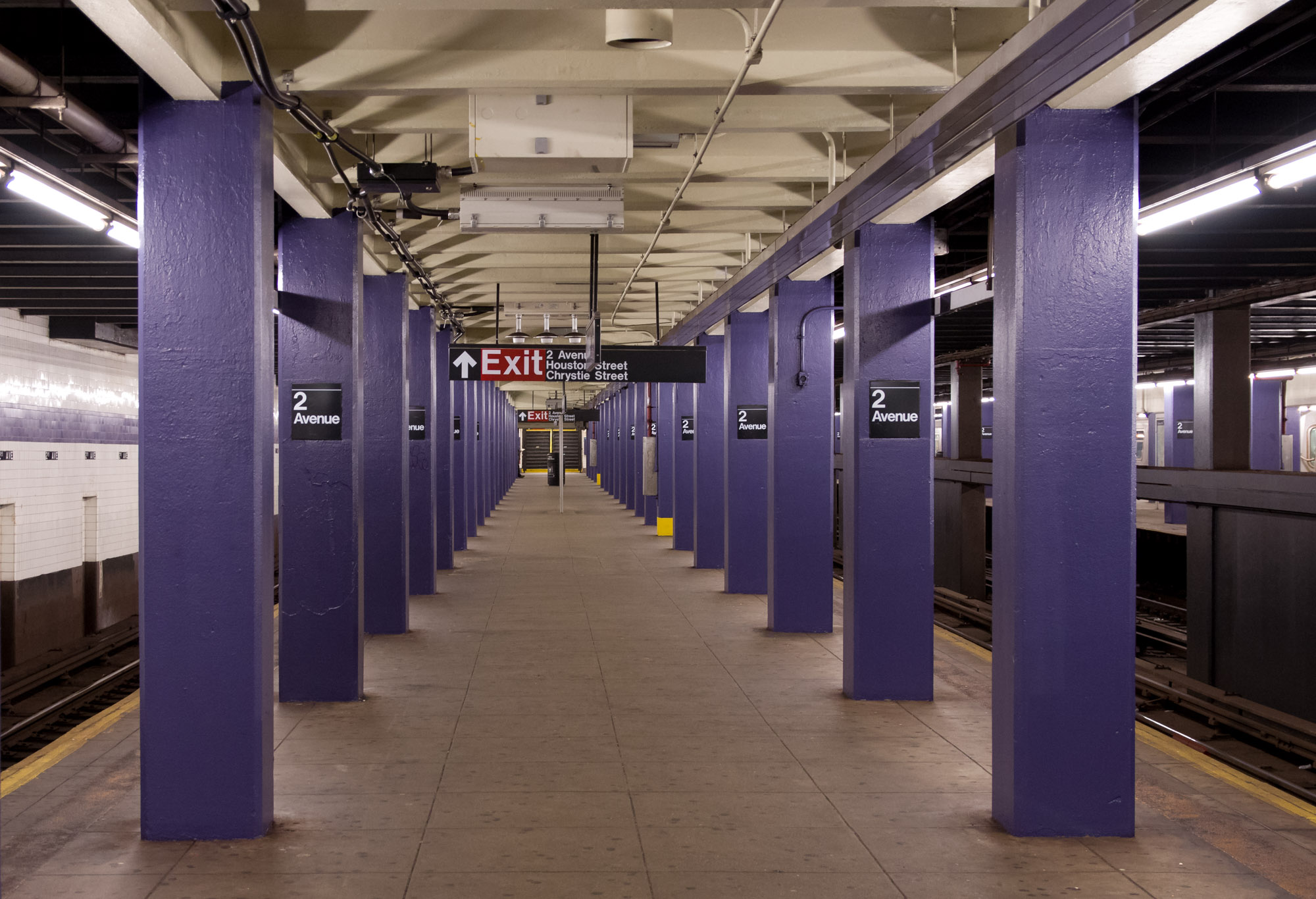 2nd avenue subway station